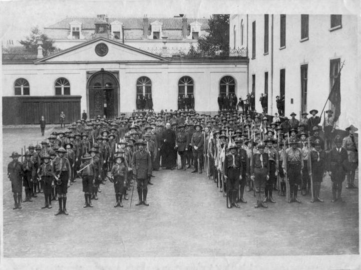 Picture made in 1919, on the foundation of the Saint-Barbara Boy Scouts in Ghent, Belgium